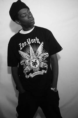 Picture of Becoming Phill ("Tshuutheni Emvula, born October 19, 1981 in Berlin, Germany), sometimes known as Becoming Phill is an hip hop record producer, DJ, composer, and video editor from Windhoek, Namibia.